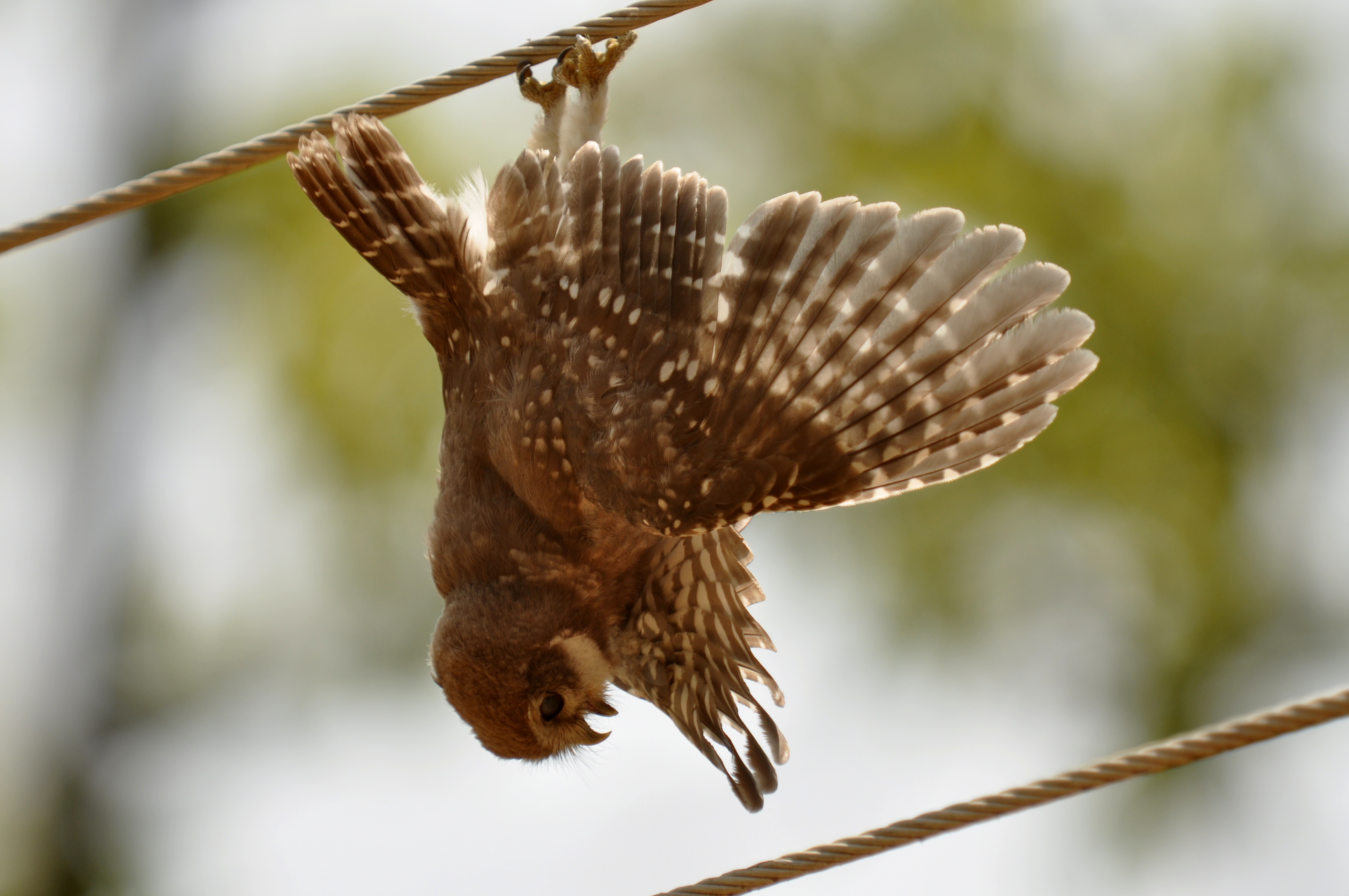 Spotted Owlet electrocuted in Central India